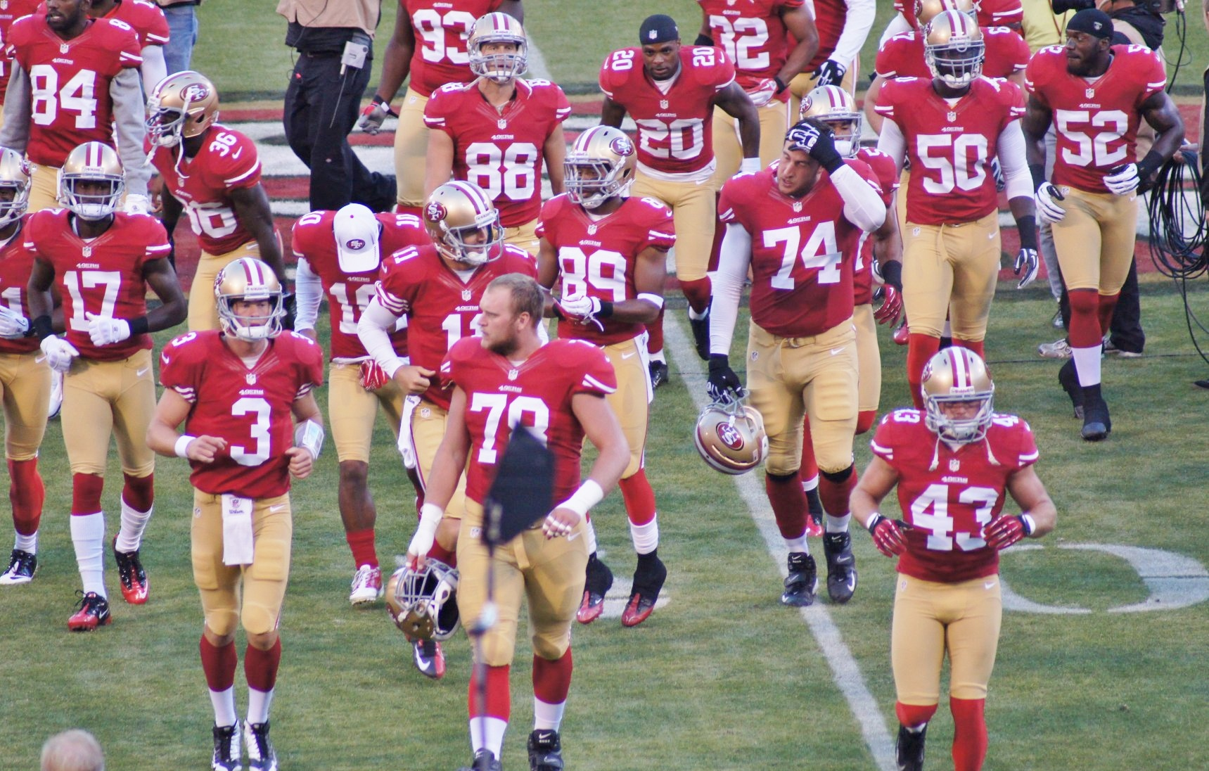 San Francisco 49ers football players take the field before their Aug. 30, 2012 preseason game against the San Diego Chargers at San Francisco's Candlestick Park.